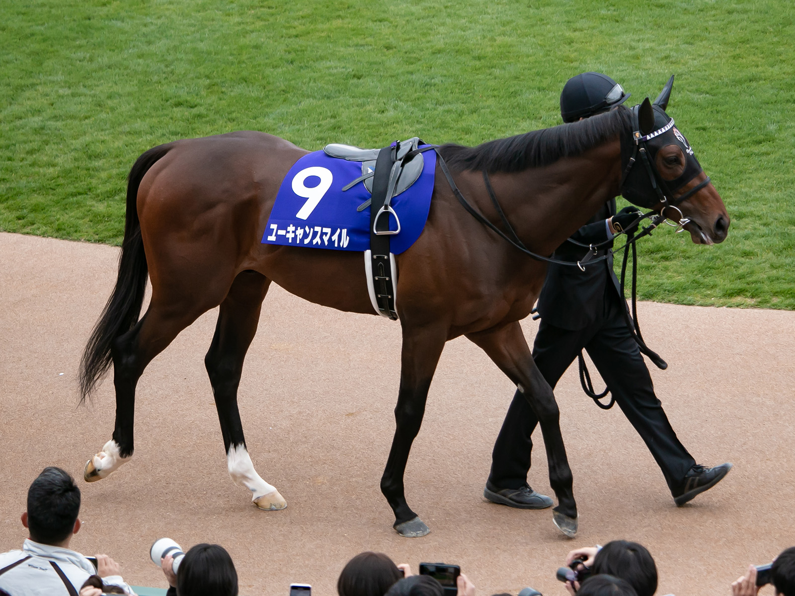 You Can Smile(JPN), Racehorse of Japan.